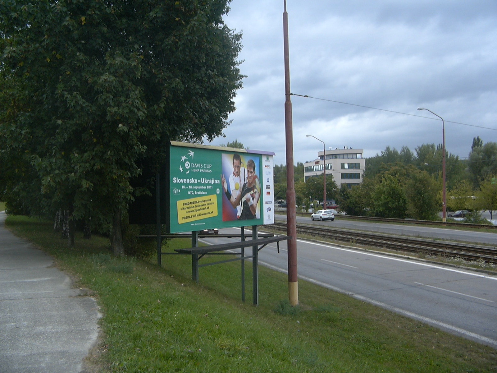 Slovakia - Ukraine 2011, Davis cup, preview